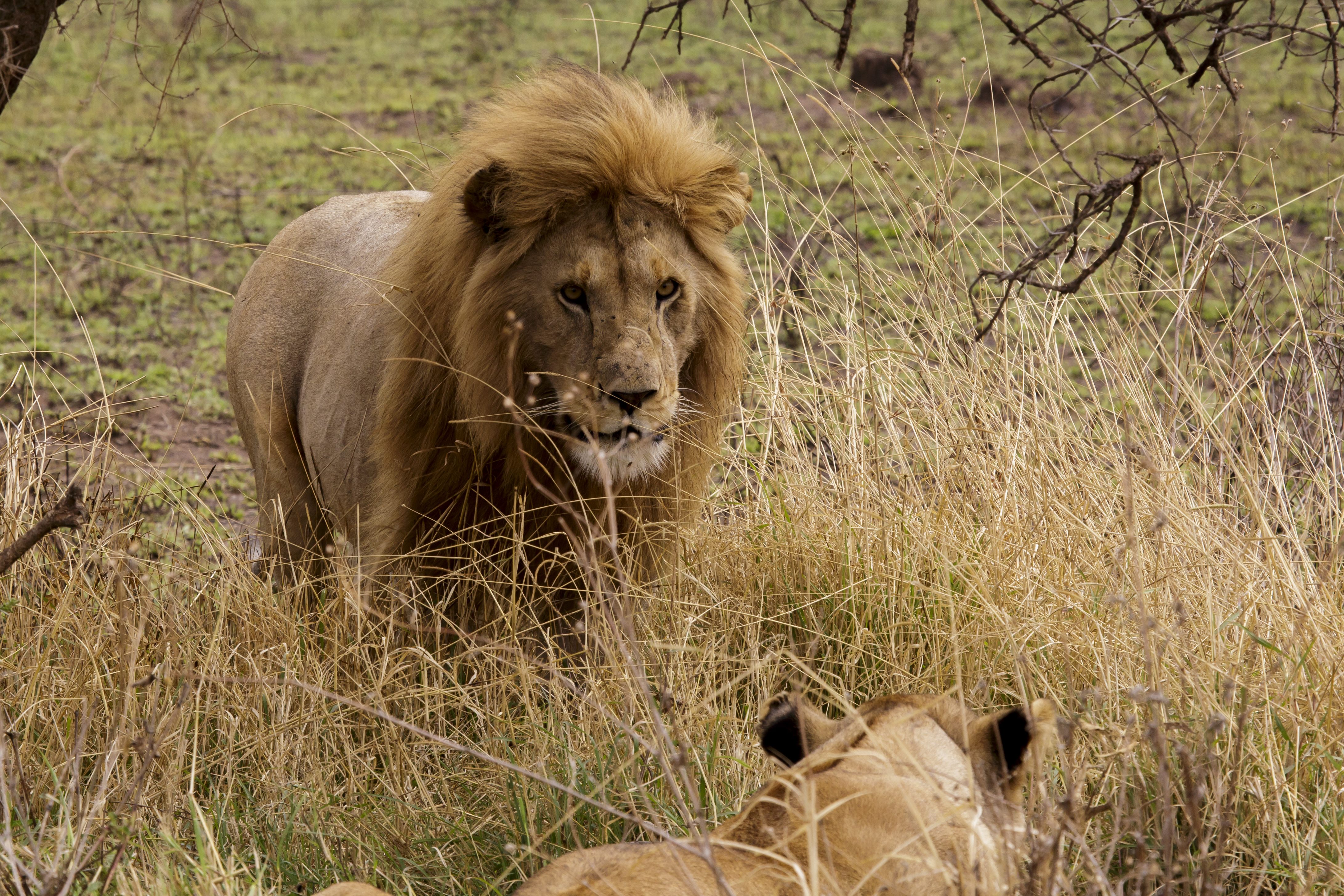 Serengeti National Park, Tanzania - Löwe - lion - Panthera leo - The image was taken during 5 weeks of traveling on an overlander camping tour through east and south Africa in 2015. - Die Aufnahme entstand bei einer 5-wöchigen Campingtour durch das südliche und östliche Afrika im Jahr 2015.